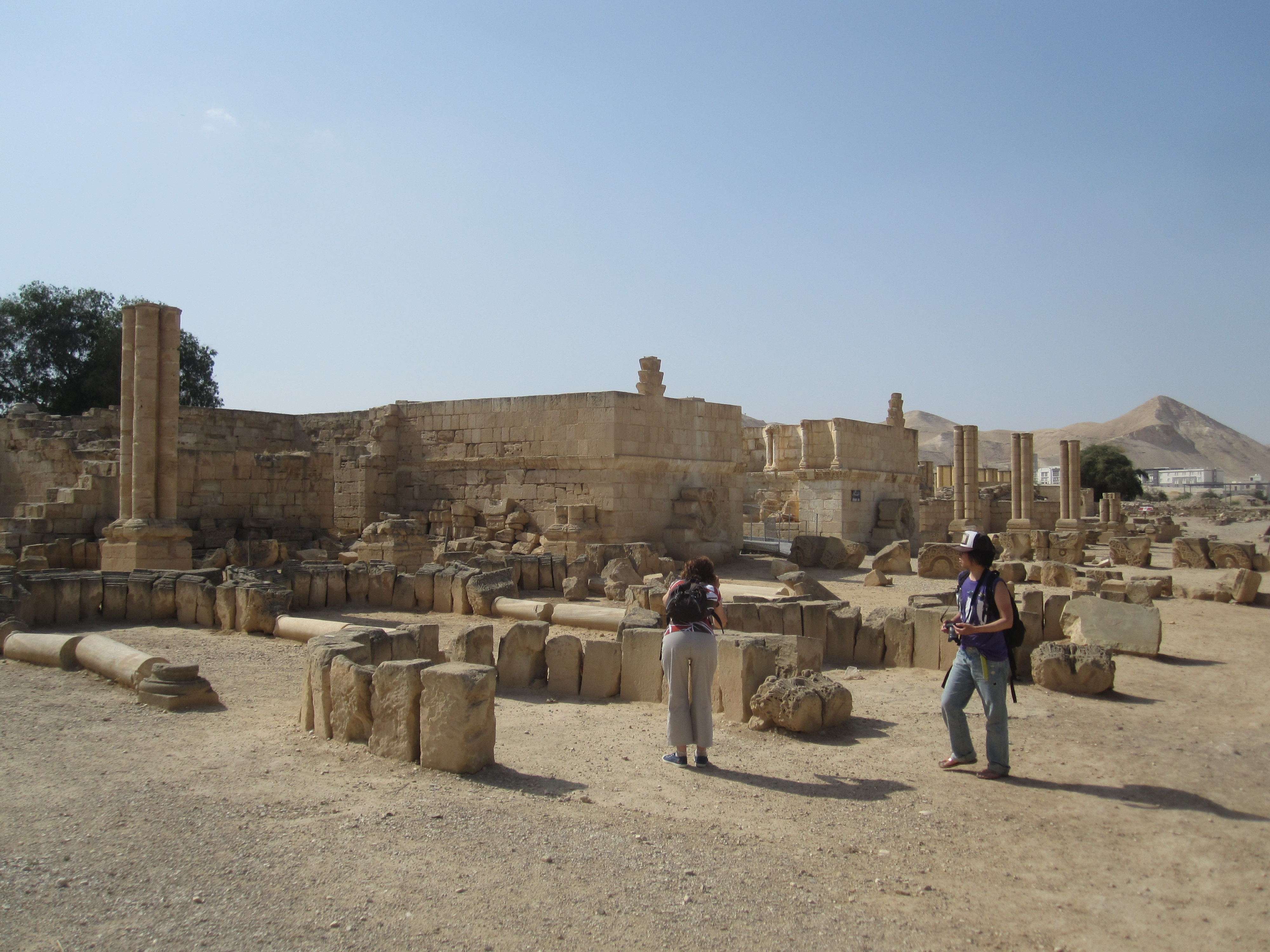 Hisham's Palace site view, West Bank, Palestine.